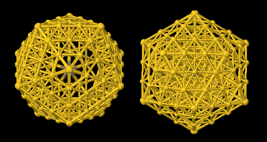 Icosahedral twin model viewed down the 5-fold (left) and 3-fold (right) axes. This model consists of an icosahedral core and ten dual-tetrahedron (bow-tie) crystals.